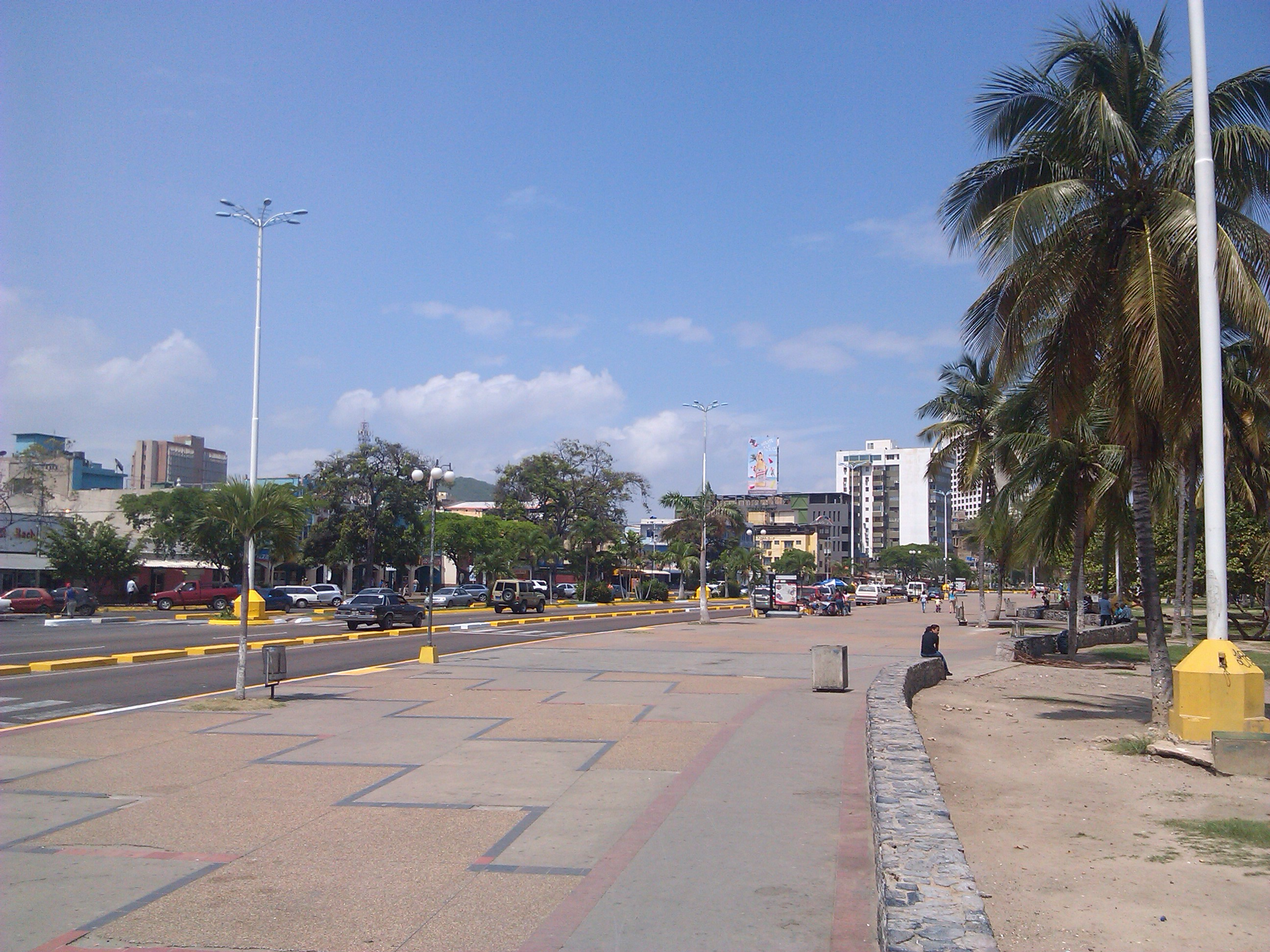 Paseo Colon of Puerto La Cruz in Venezuela.